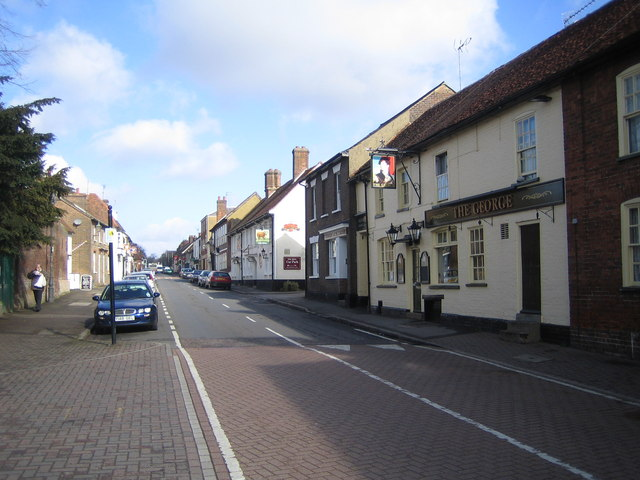 Redbourn: The High Street. Once the Roman Watling Street, then the arterial A5, then downgraded to the A5183, and now with A5183 by-passing it to remove through traffic, this is the main street in Redbourn, viewed looking northwards. The George and The Bull are the two Public Houses on the right side of the road.